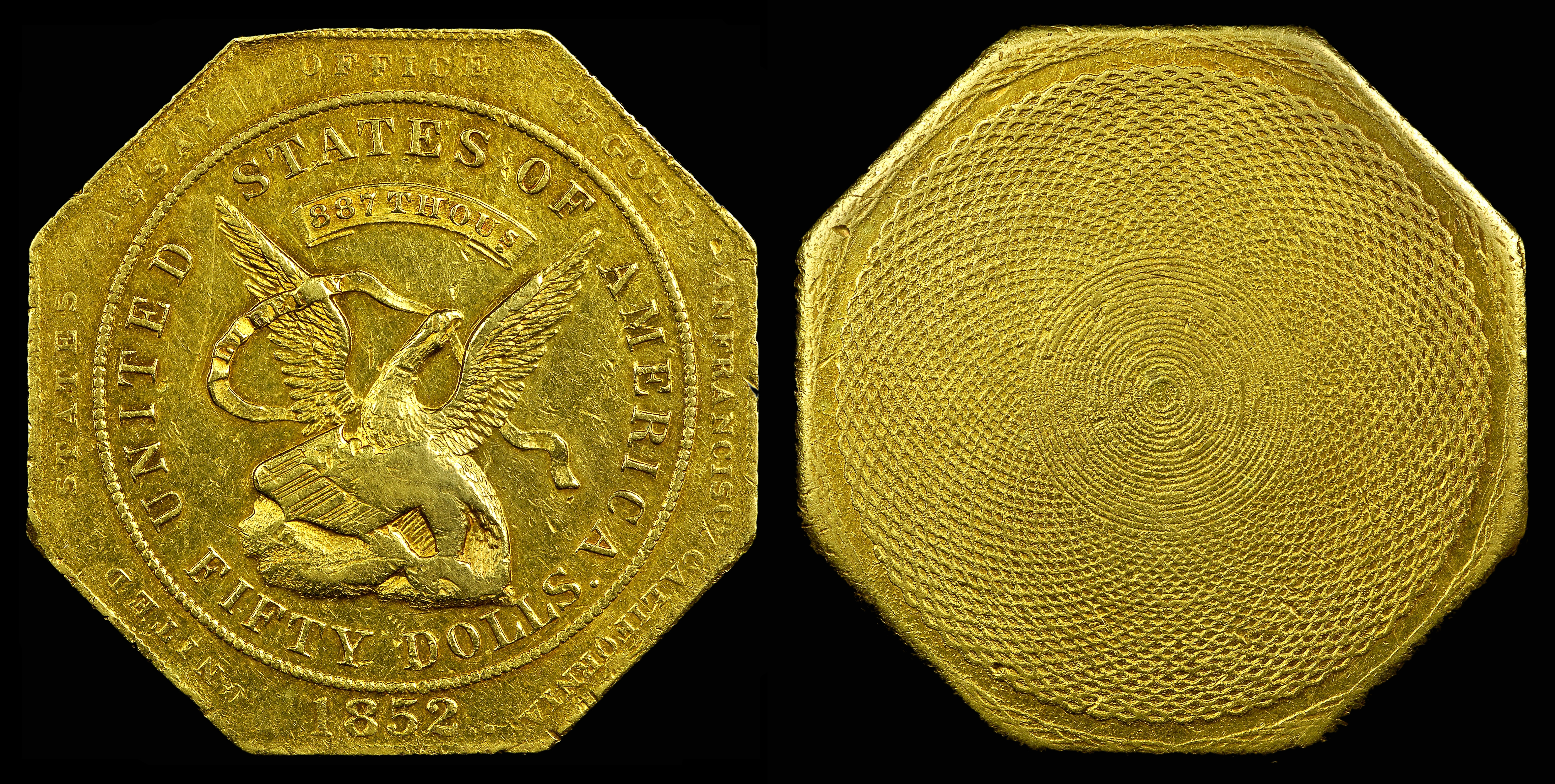 1852 $50 Assay Office Fifty Dollar, 887 Thous(1215-3464)